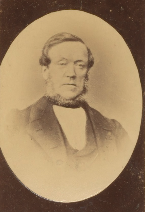 Portrait van Martinus Adrianus Hartman (1805-1867)